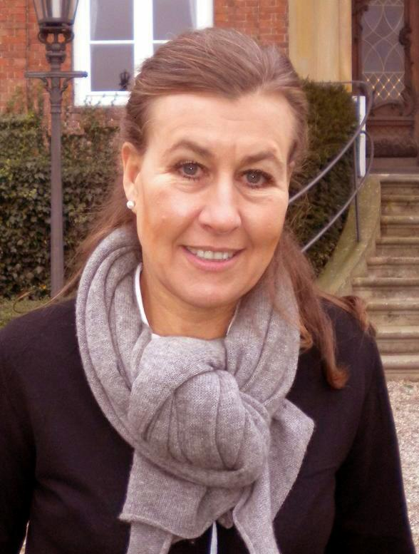 H. S. H. Princess Elisabeth of Schleswig-Holstein, as released by image creator Ristesson;Place: Thumby, Germany